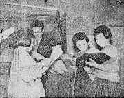 Studio of the Nagaoka Educational Broadcasting